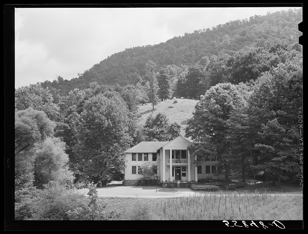 Pine Mountain Settlement School near Harlan, in the U.S. state of Kentucky.